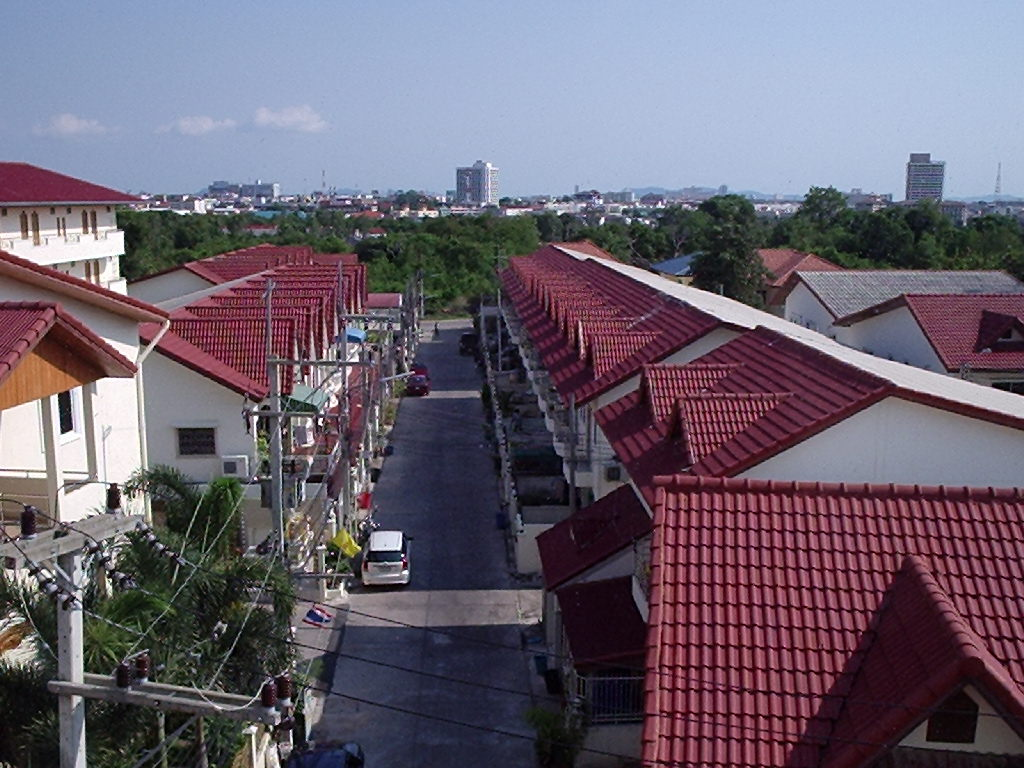 Family houses, Pattaya, Thailand